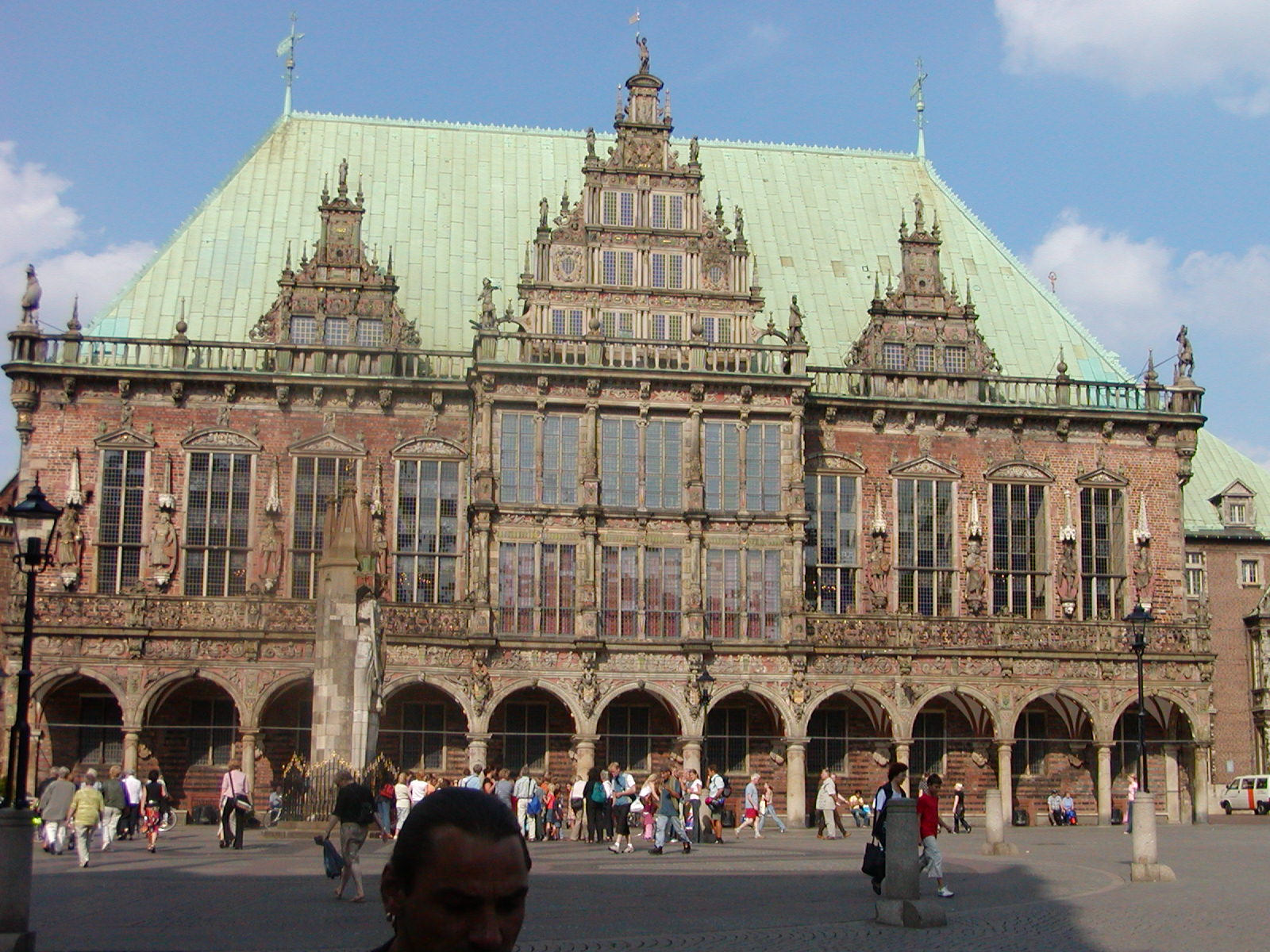 The town hall in Bremen, Germany